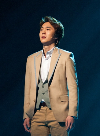 Jo Sungmo (조성모) in February 2012